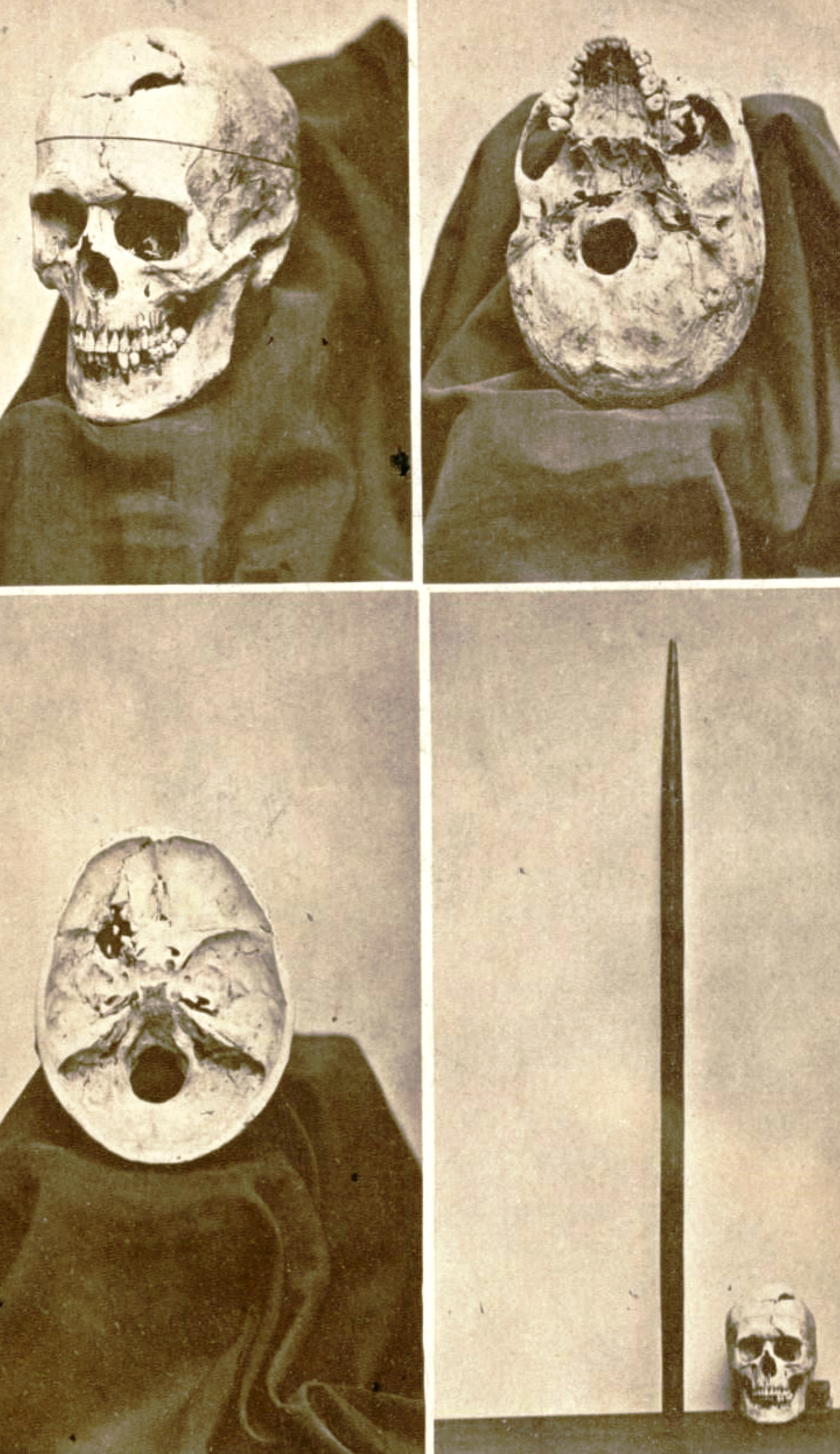 Frontispiece, showing multiple views of the exhumed skull, and tamping iron, of brain injury survivor Phineas Gage